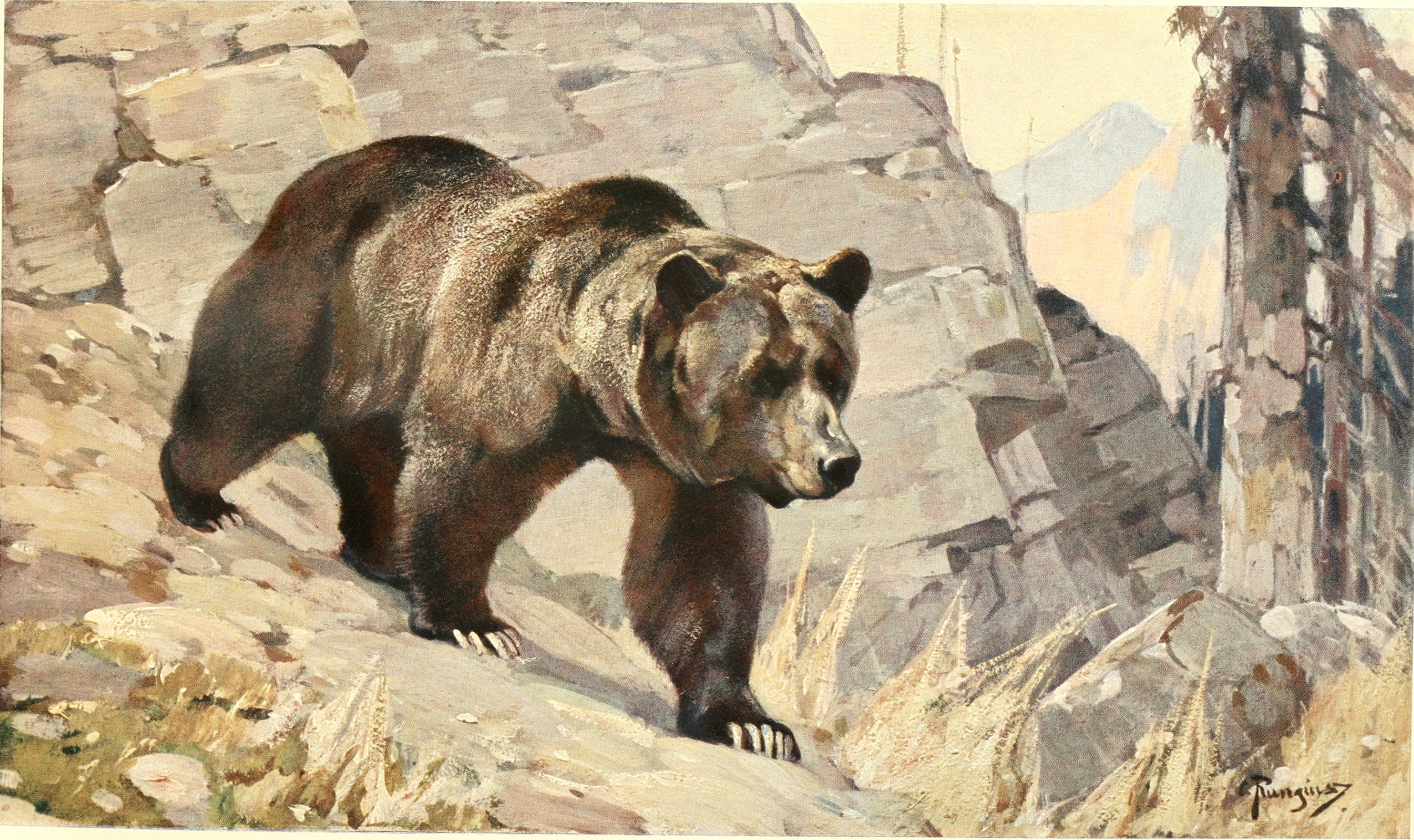 Title: Brehms Tierleben. Allgemeine kunde des Tierreichs Year: 1911 (1910s) Authors: Brehm, Alfred Edmund, 1829-1884; Zur Strassen, Otto L. , 1869-; Heck, Ludwig, 1860-; Hempelmann, Friedrich, 1878-; Heymons, Richard, 1867-; Werner, Franz, b. 1867; Marshall, William, 1845-; Bibliographisches Institut Leipzig Subjects: Zoology; Animal behavior Publisher: Leipzig, Wien, Bibliographisches Institut Text Appearing Before Image: ^^-^mmm^m^' ^ Text Appearing After Image: Cd o